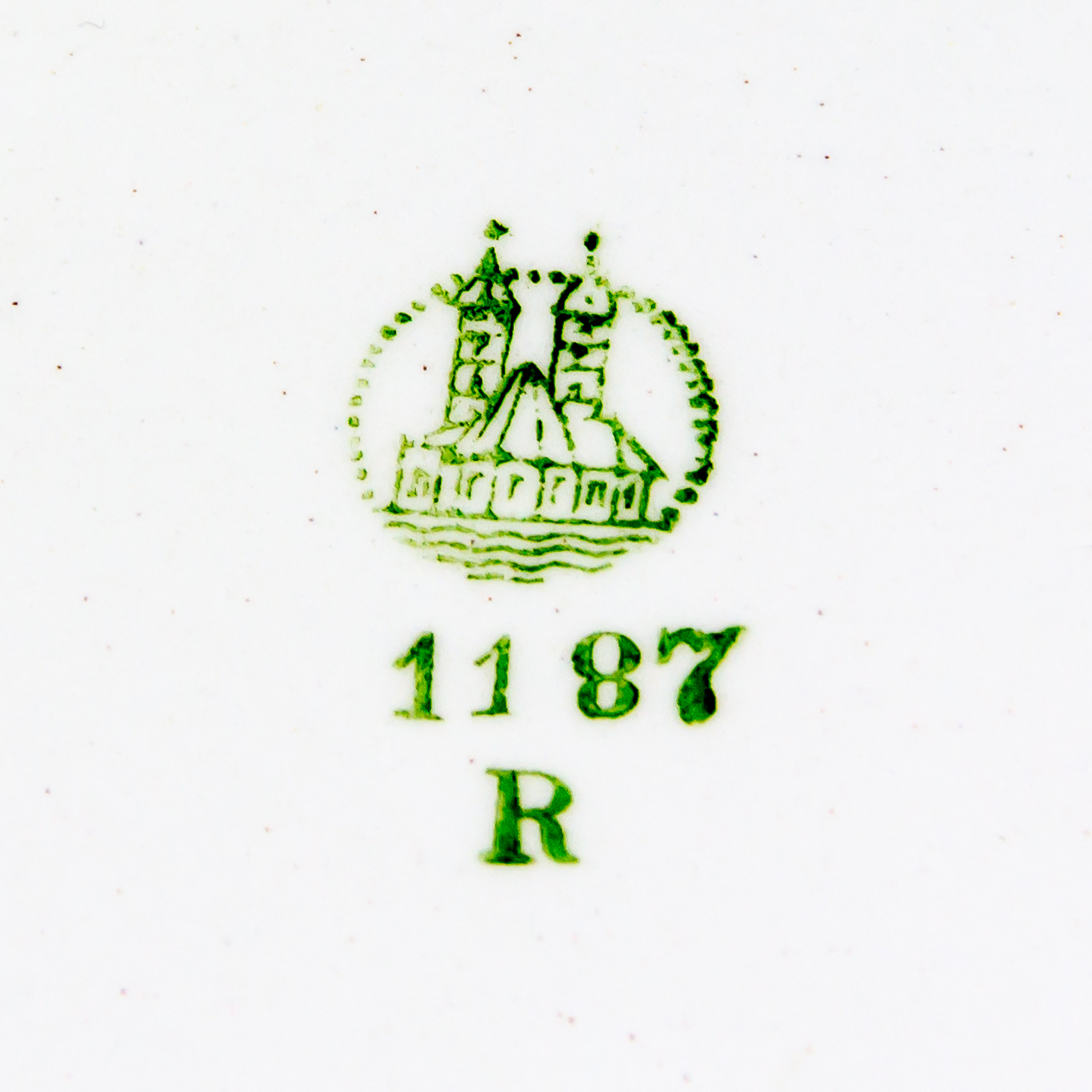 Cake plate